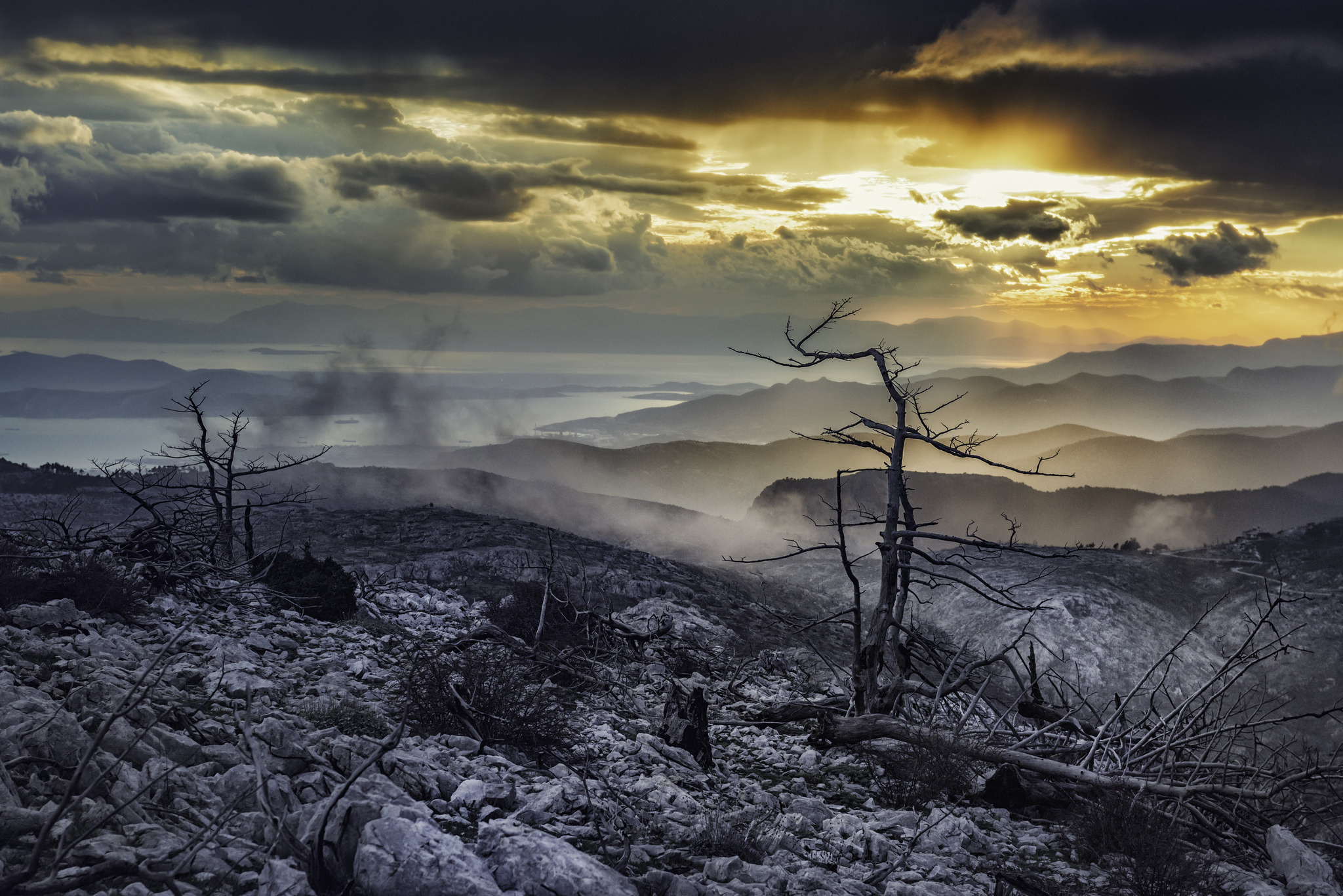 Burned forest on Mount Parnitha. This is a photography of Natura 2000 protected area with ID GR3000001